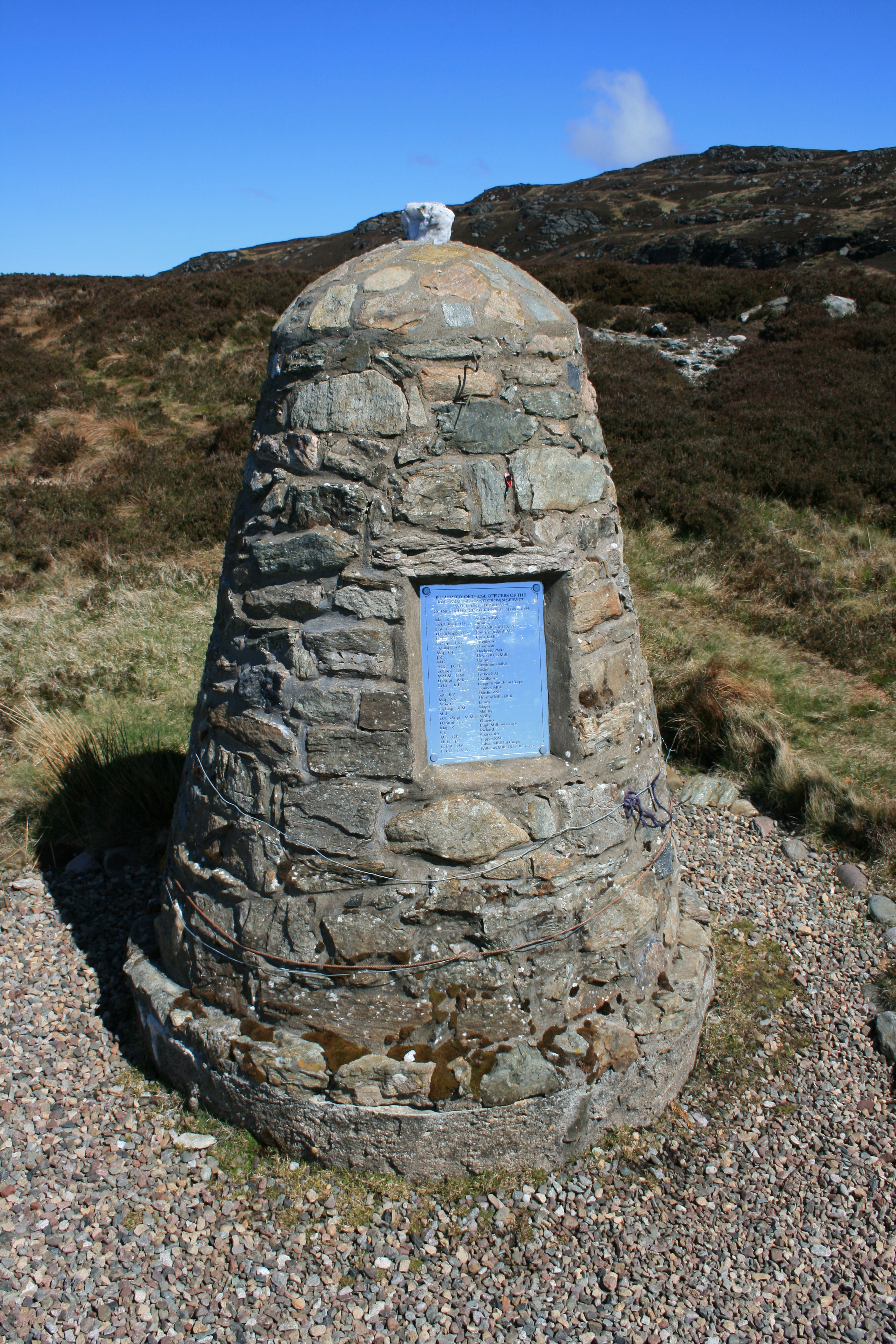 Memorial on Mull of Kintyre to the crash victims of the en:1994_Scotland_RAF_Chinook_crash